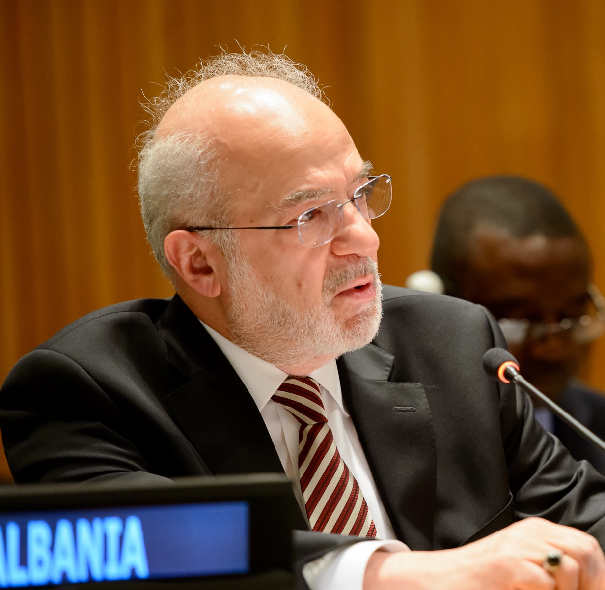 26 September 2014 - UN, New York Iraq's Minister of Foreign Affairs, Ibrahim Al-Jaafari